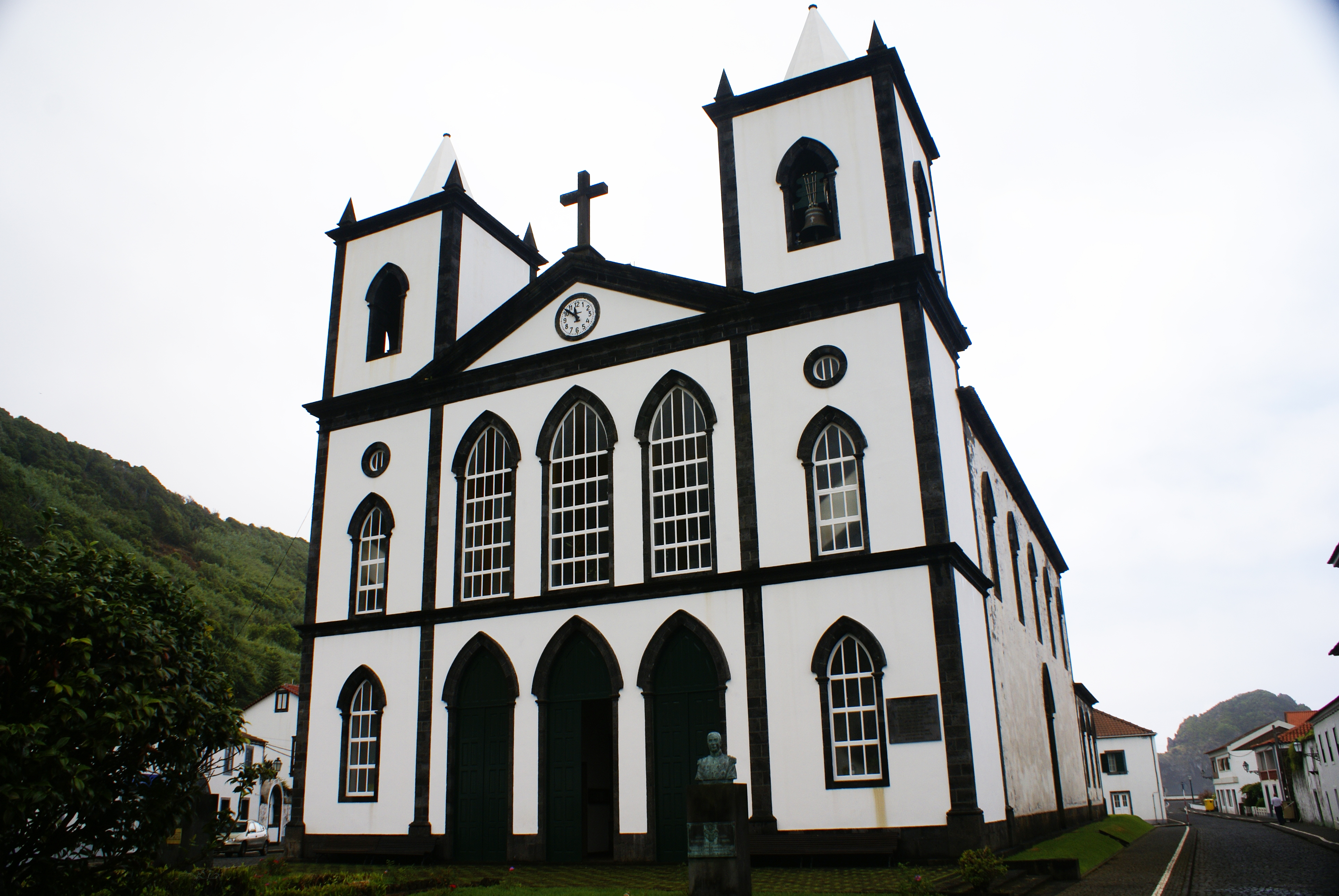 Main façade of the Church of the Santíssima Trindade, Lajes, Pico (Azores), Portugal